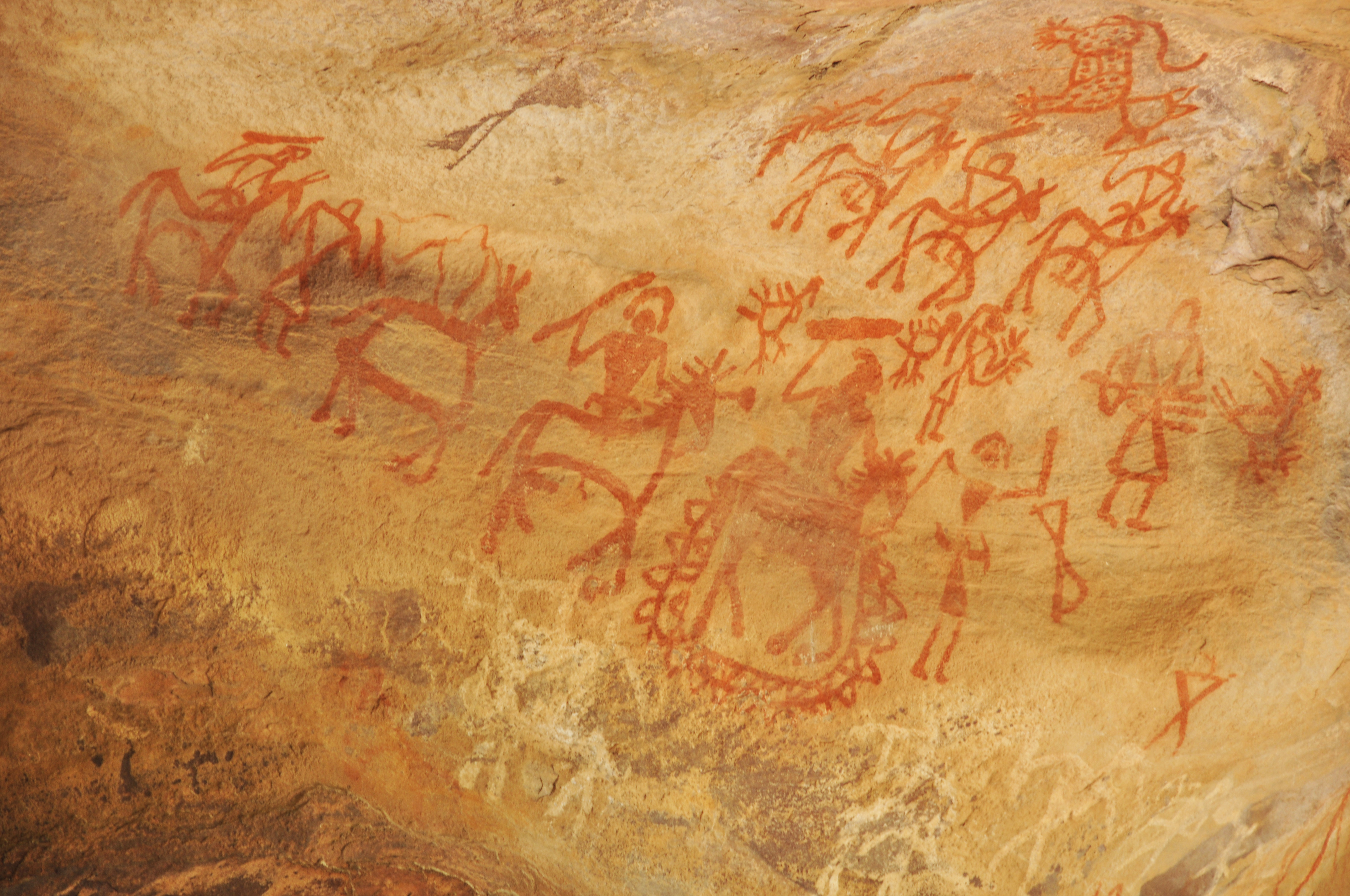 Bhimbetka is situated near Bhopal India. The rock paintings are one of the earliest records found in India.